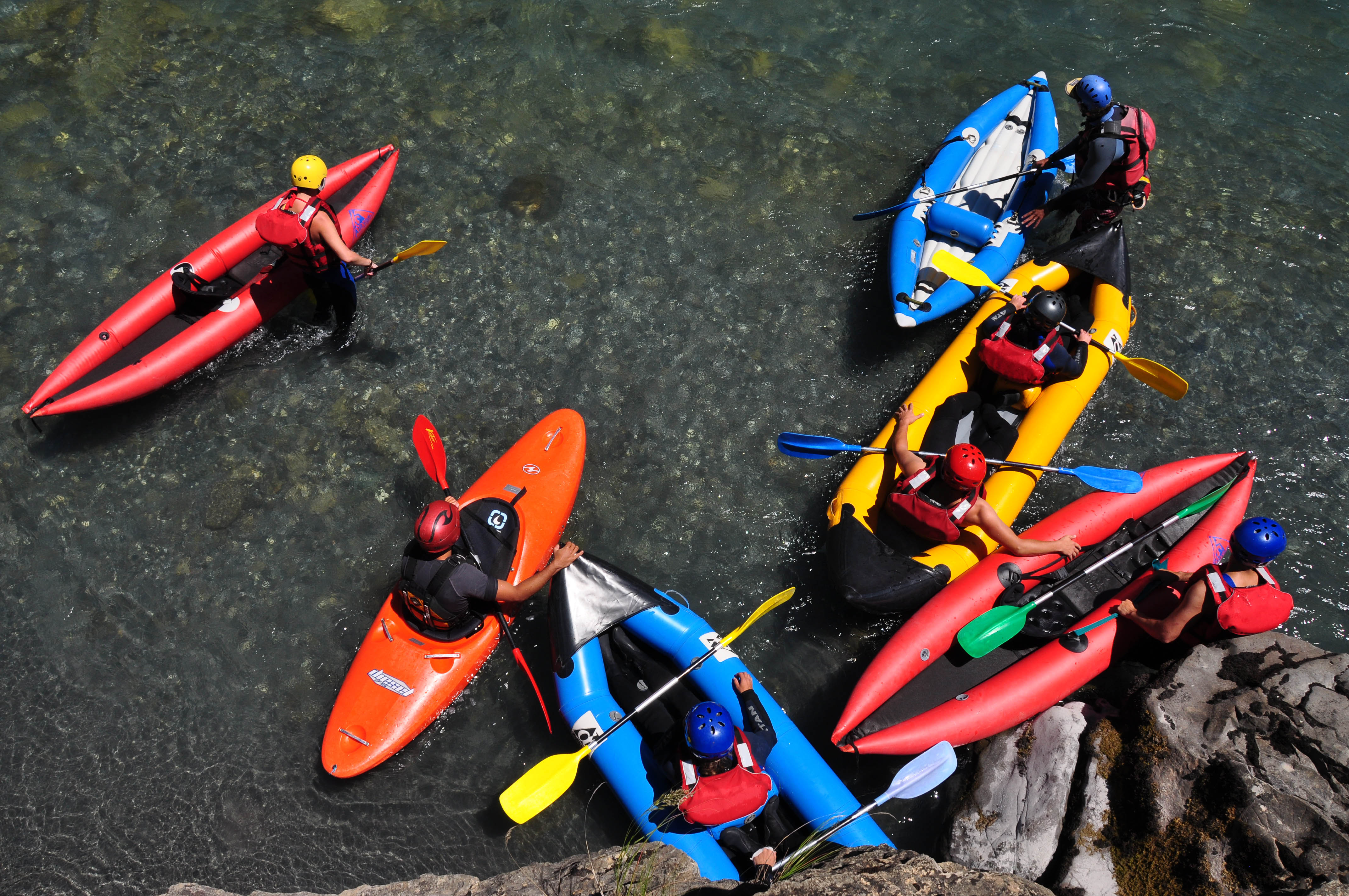 Canoé et kayak dans l'Ubaye